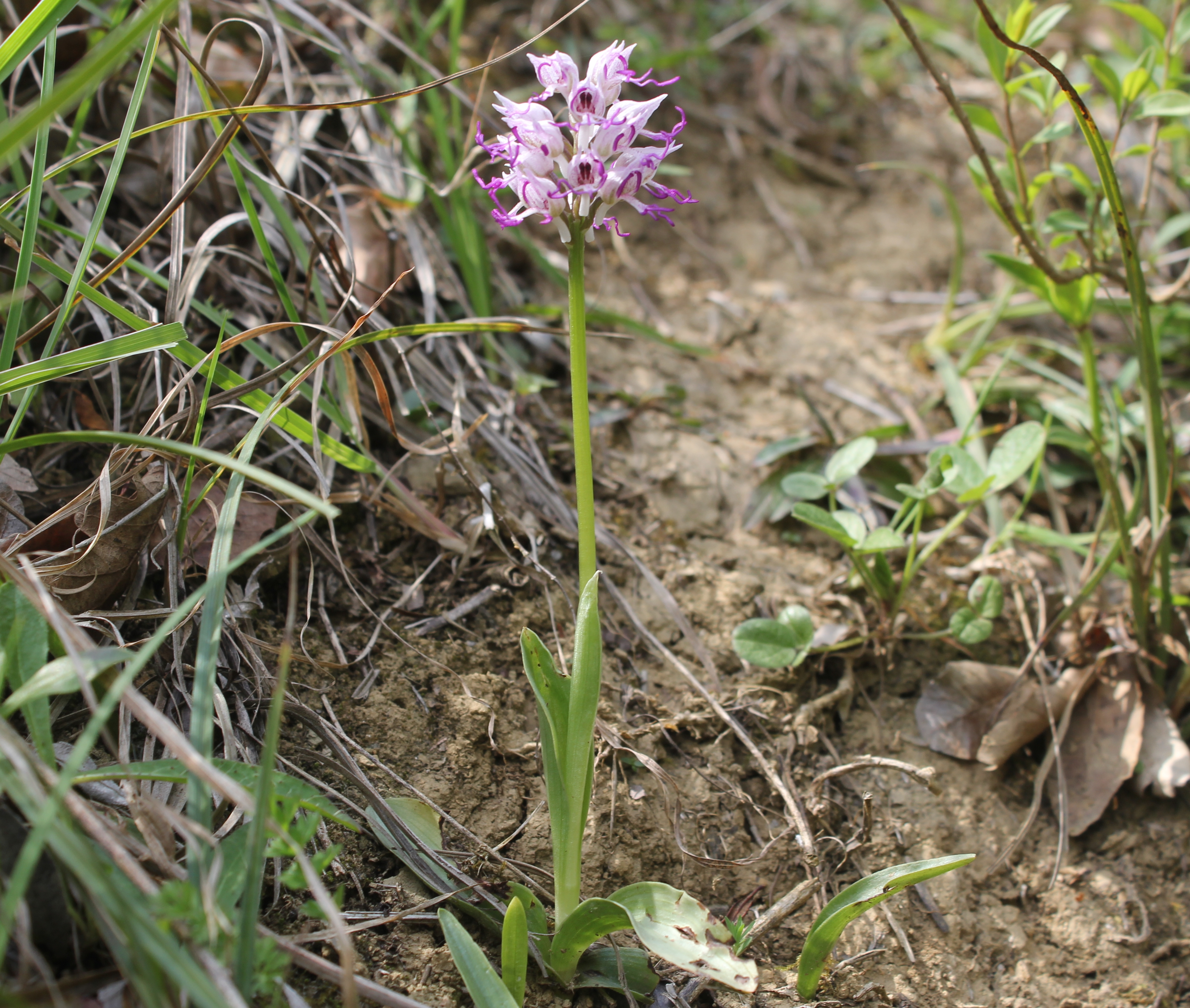 Orchis simia general